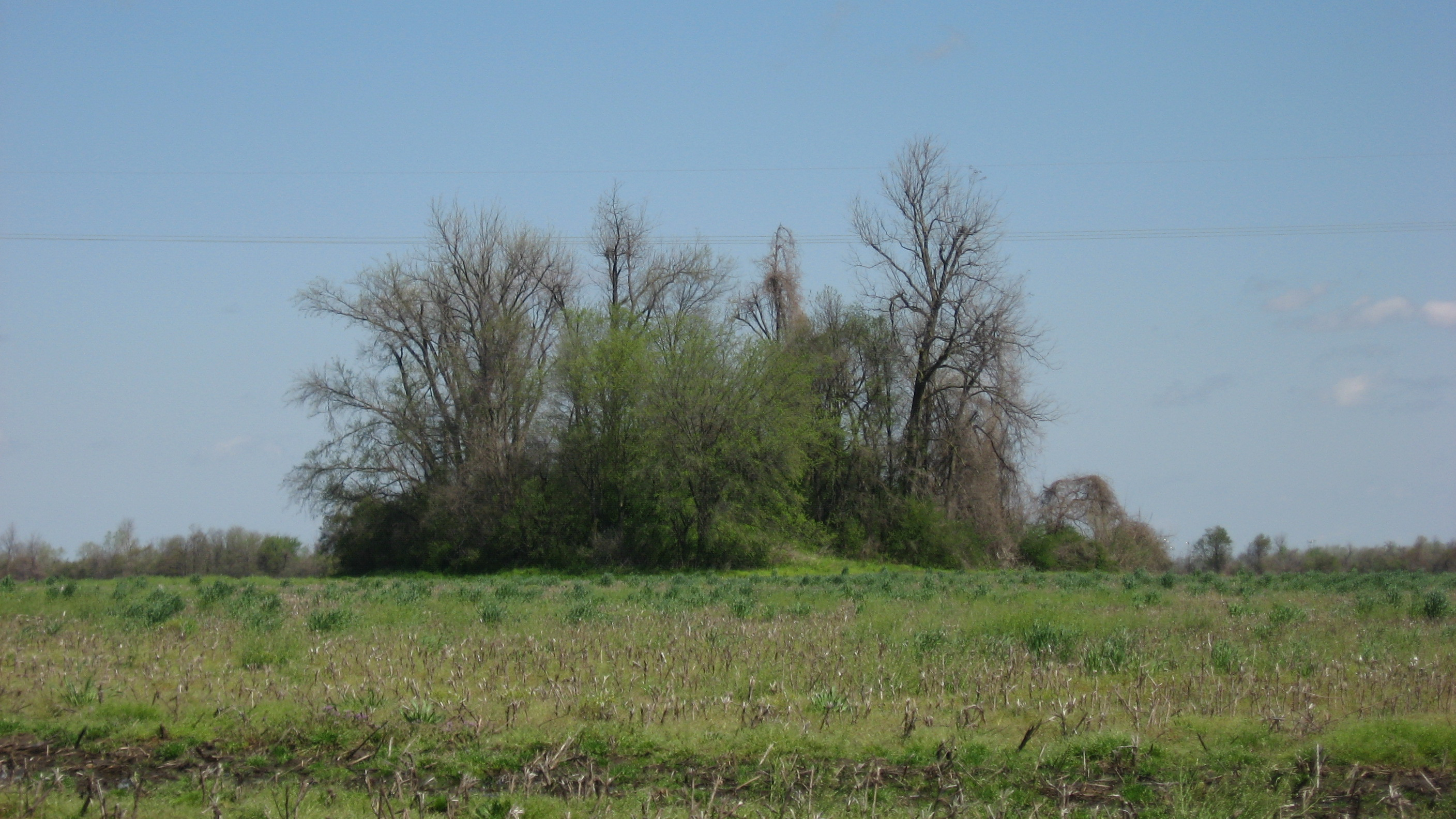 View from the south of the Chickasawba Mound, located north of the junction of Highway 151 and Chickasawba Avenue in Blytheville, Arkansas, United States. Built by Mississippian peoples of the Nodena Phase, it is listed on the National Register of Historic Places as an archaeological site.